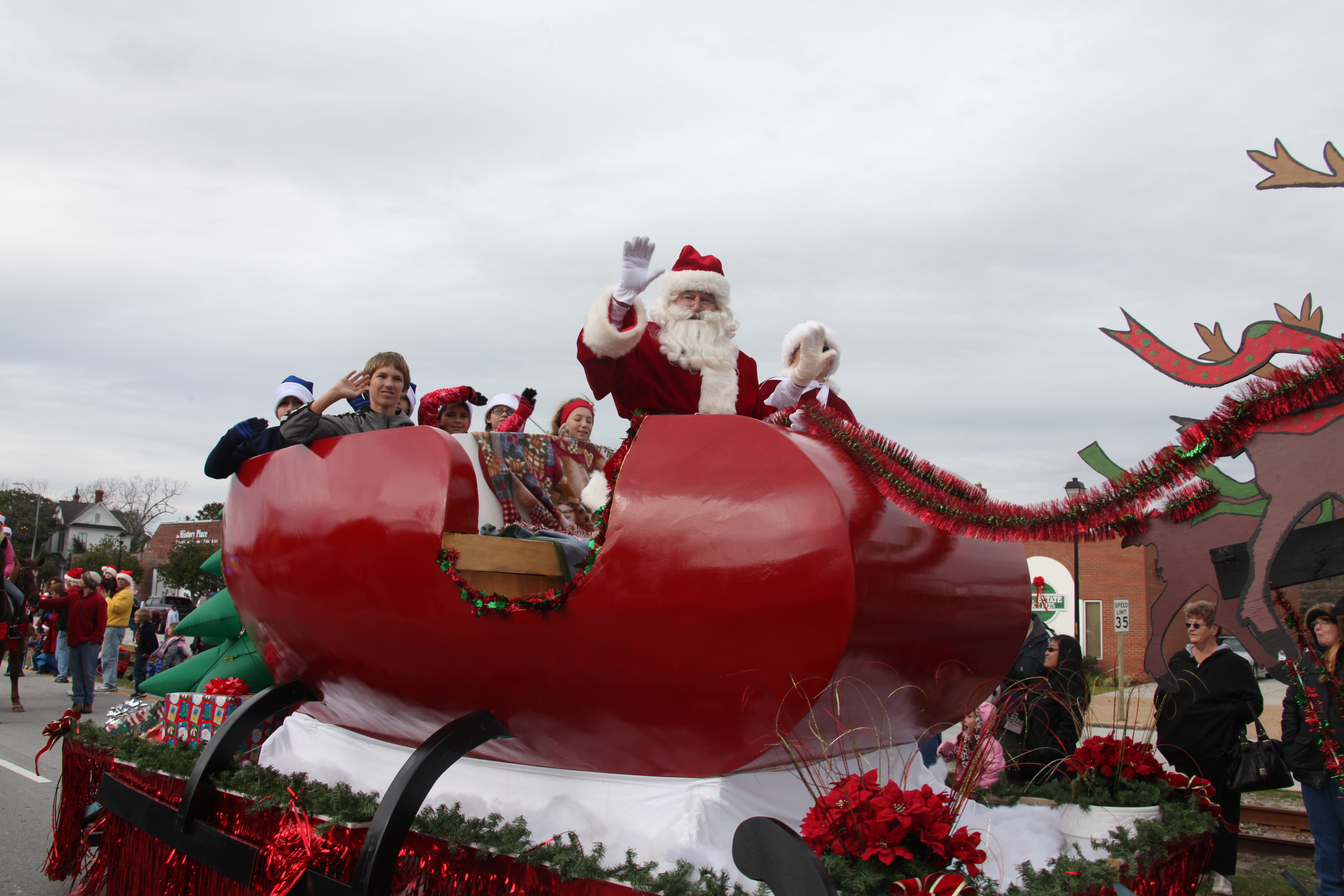 Santa Claus waves to children from his sleigh during the Morehead City Christmas Day Parade in Morehead City, N.C., Dec. 10. Santa’s appearance signaled the end of the parade and, to some, the official start to Christmas countdown.